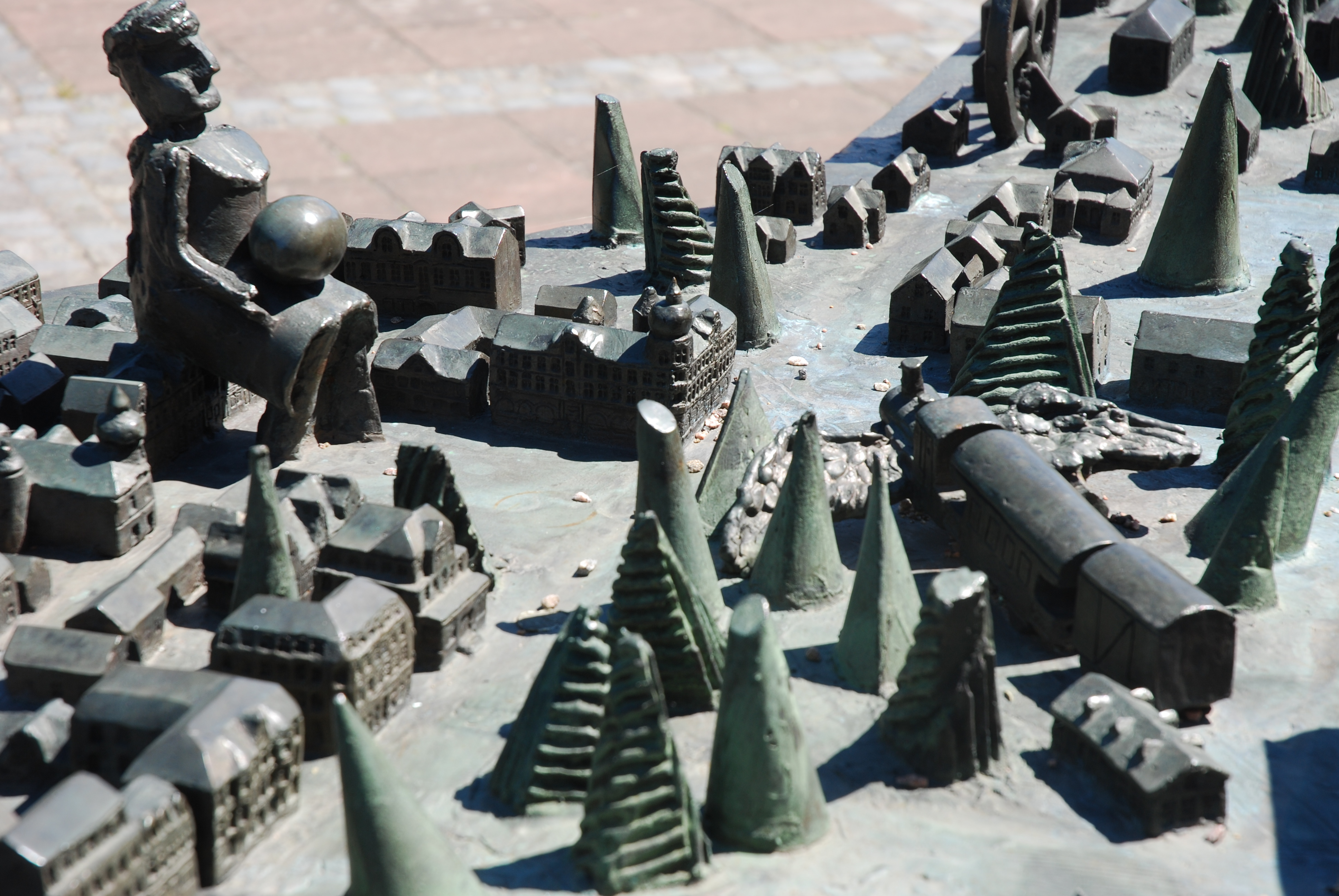 Lasse Andreassson´s sculpture of Ljungby (detail), Ljungby, Sweden